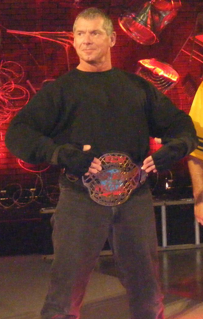 Vince McMahon at WWE One Night Stand 2007